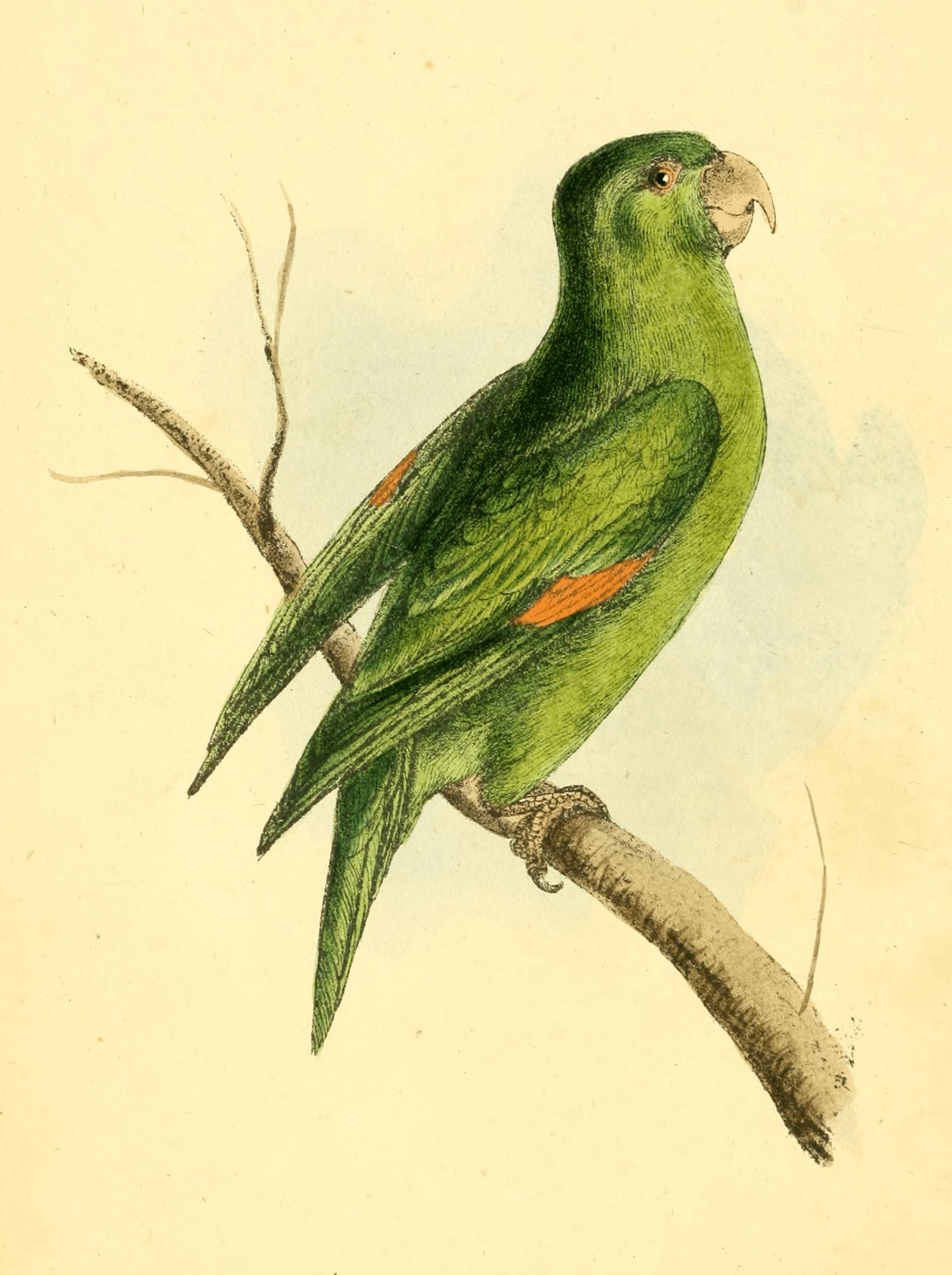 Plate 1. Psittacus Cayennensis. Cayenne gold-winged Parakeet. Modern accepted name (2012) is Brotogeris chrysoptera[1].